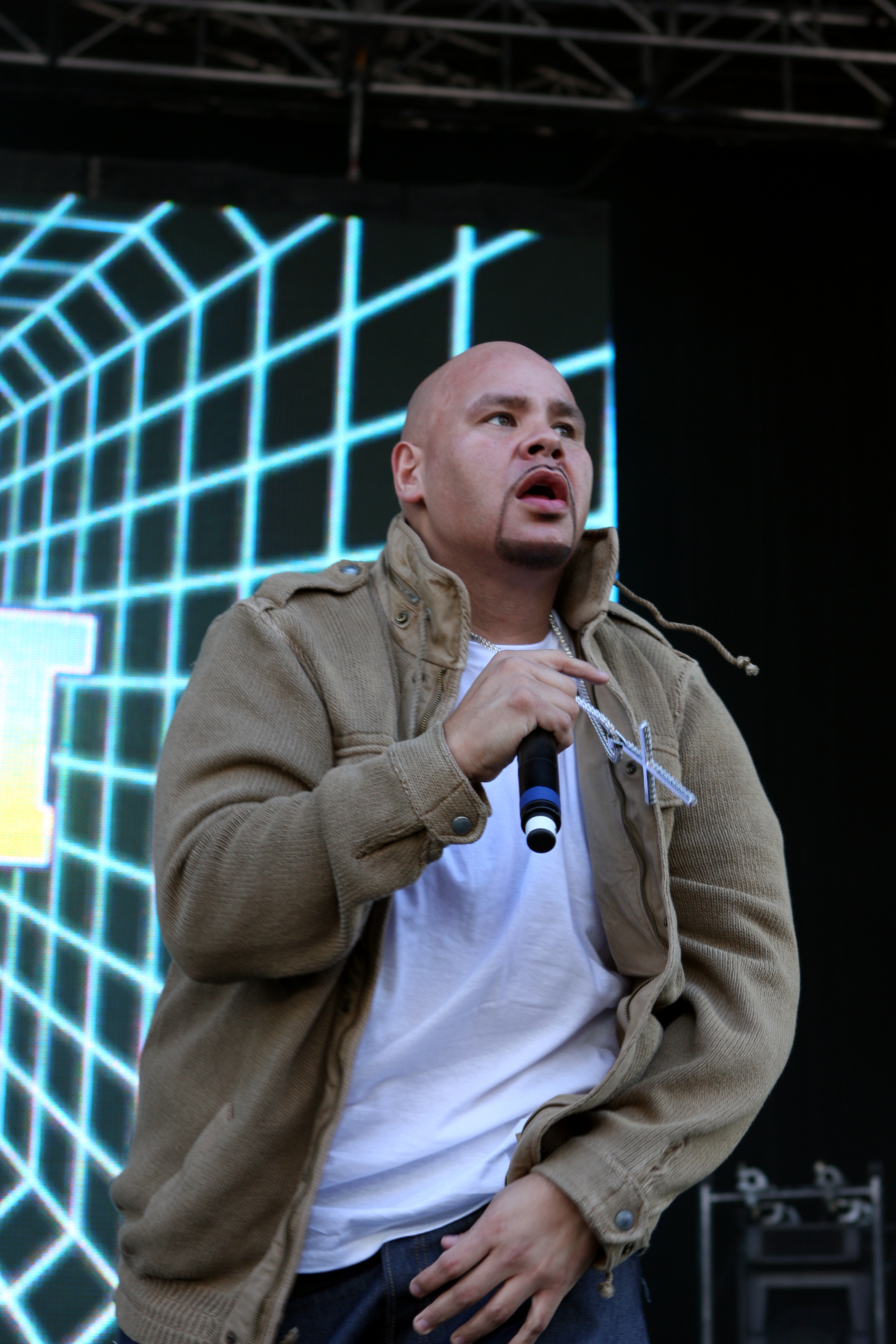 FAT JOE SUPAFEST